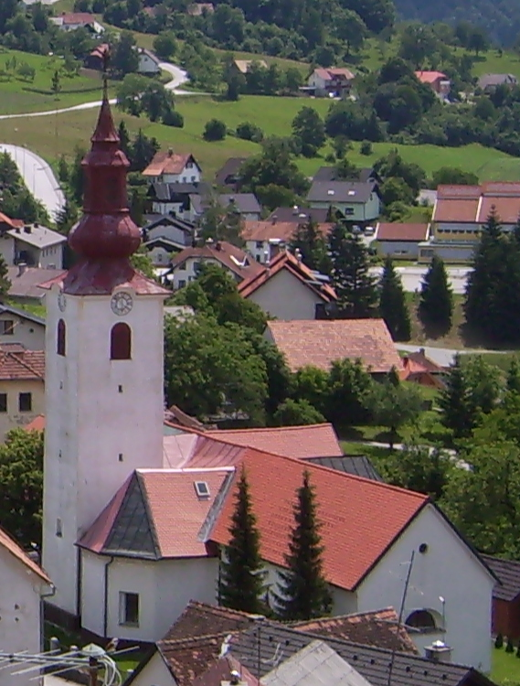 Village Planina pri Sevnici (Slovenia)